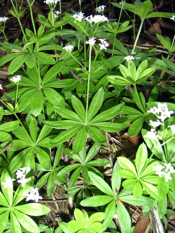 Detail of flowers